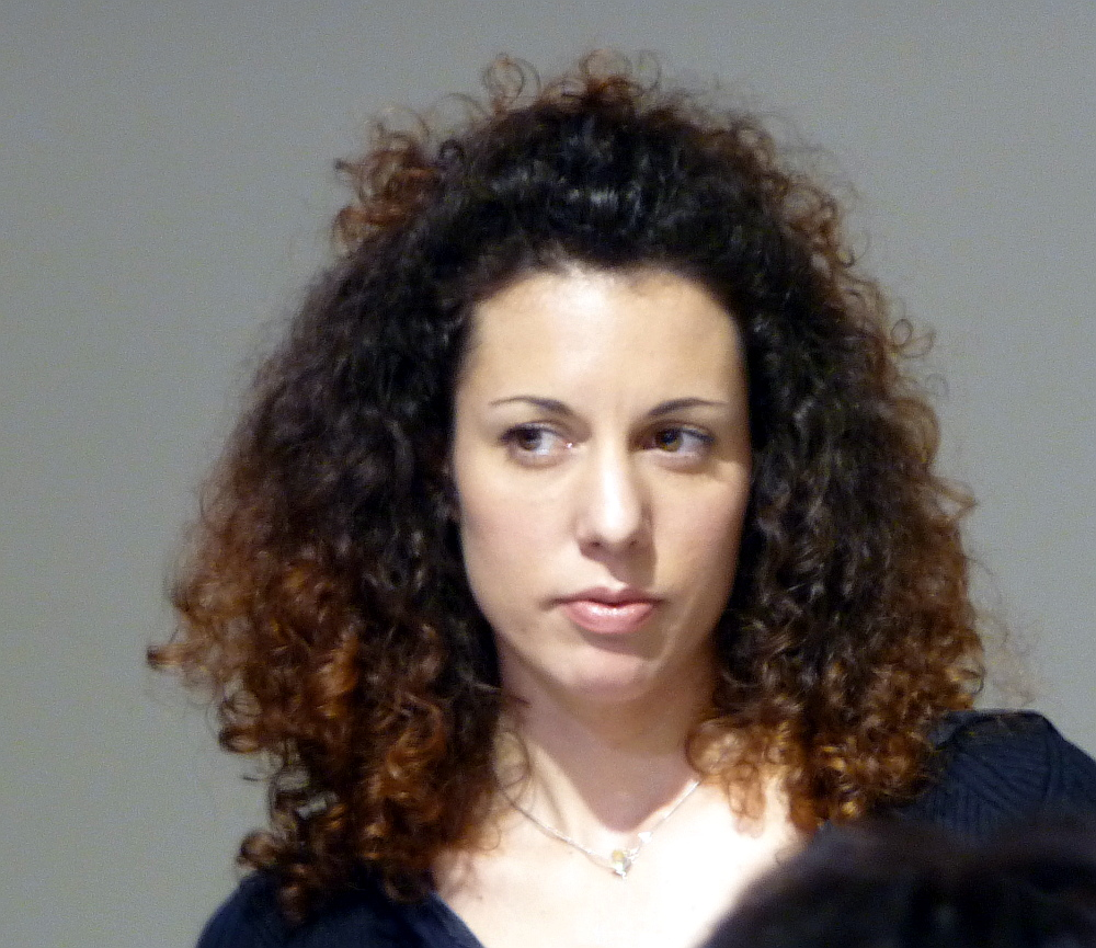 Silvia Avallone (*1984), Italian writer